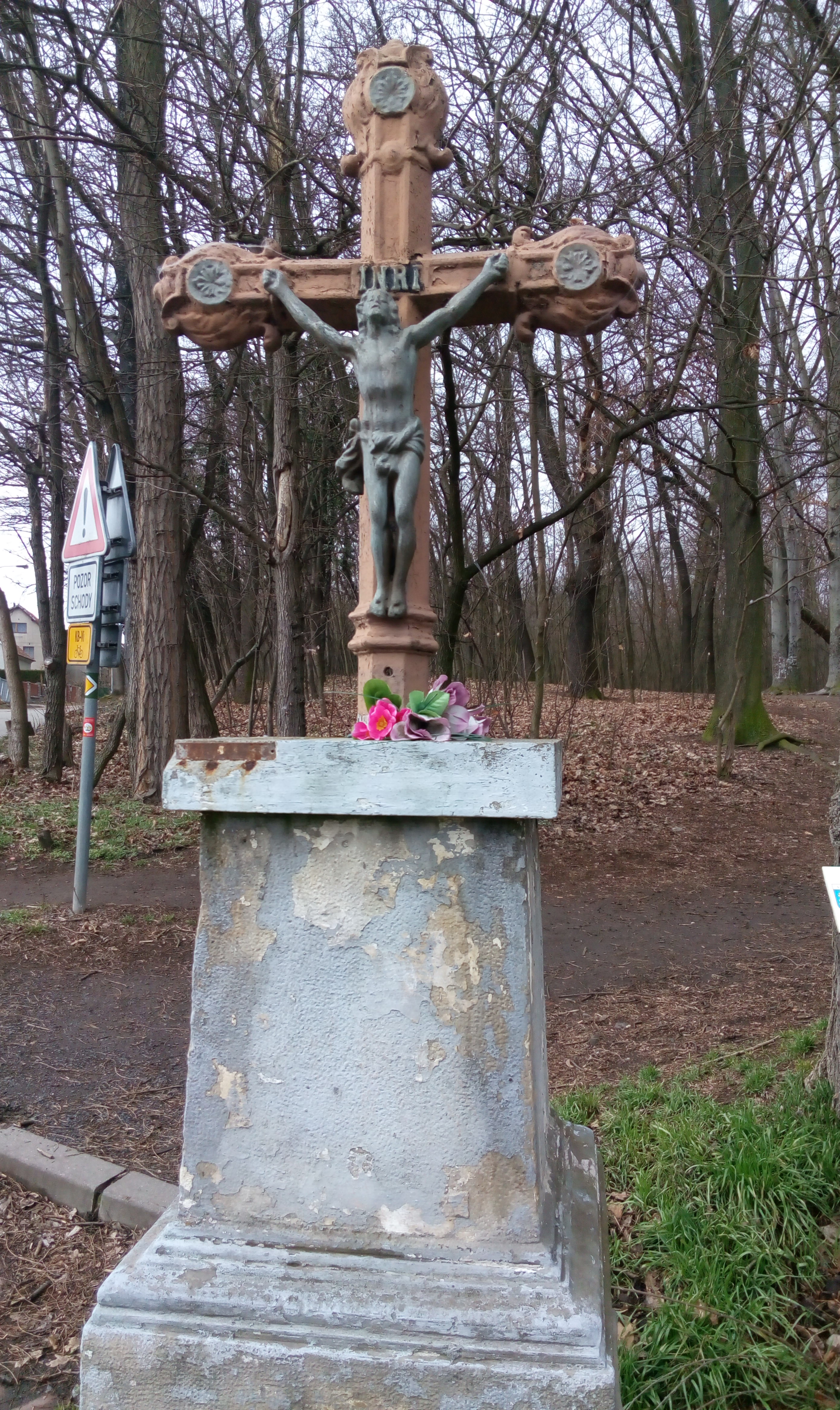 Wayside cross at the crossroads of Klenovská, Lohenická and Chojenecká streets in Vinoř (Prague)